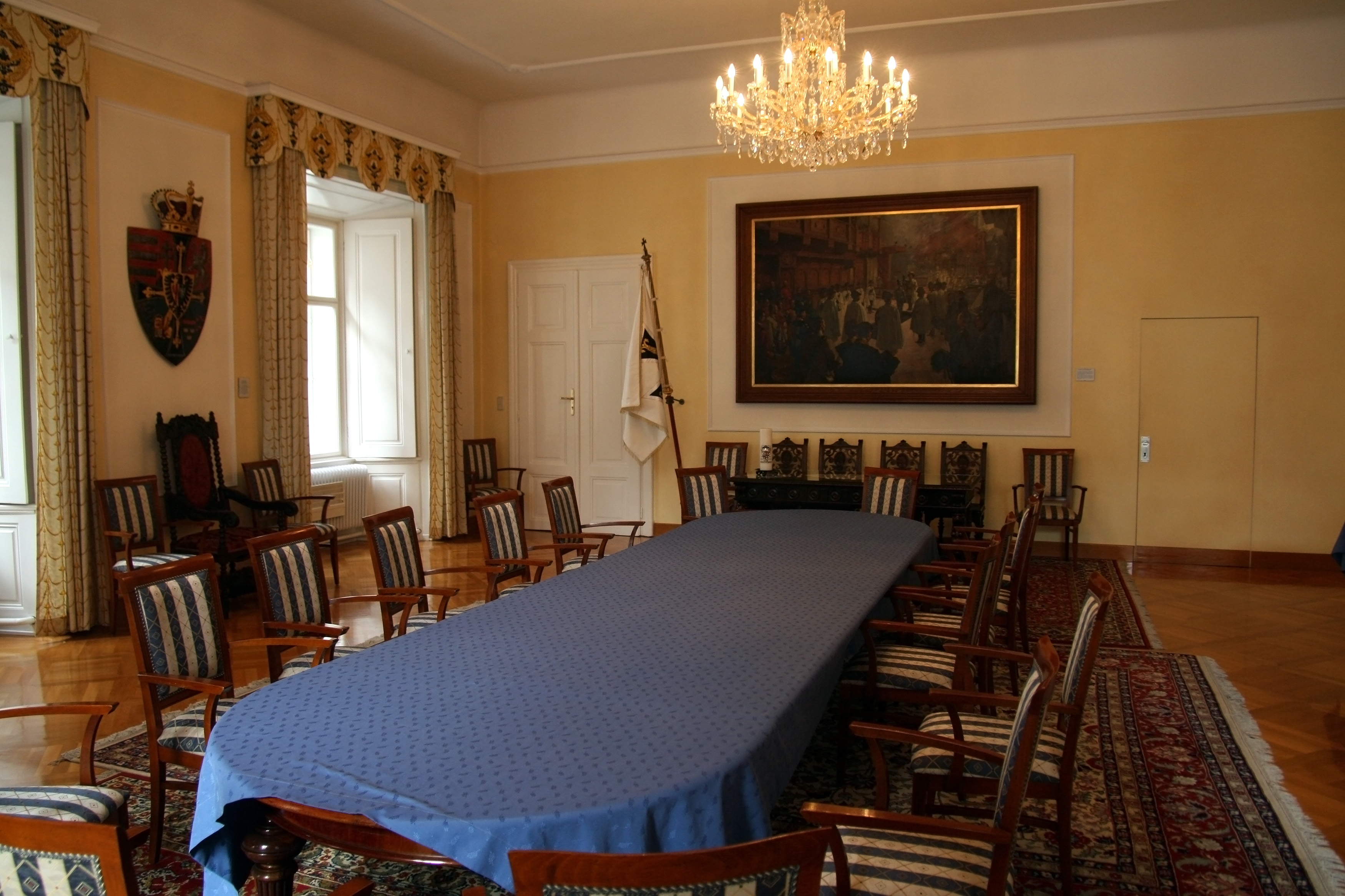 Deutschordenshaus (see Church of the Teutonic Order) in Vienna, Austria. Dieses Bild wurde anlässlich des österreichischen Tags des Denkmals 2012 in Wien eingereicht.